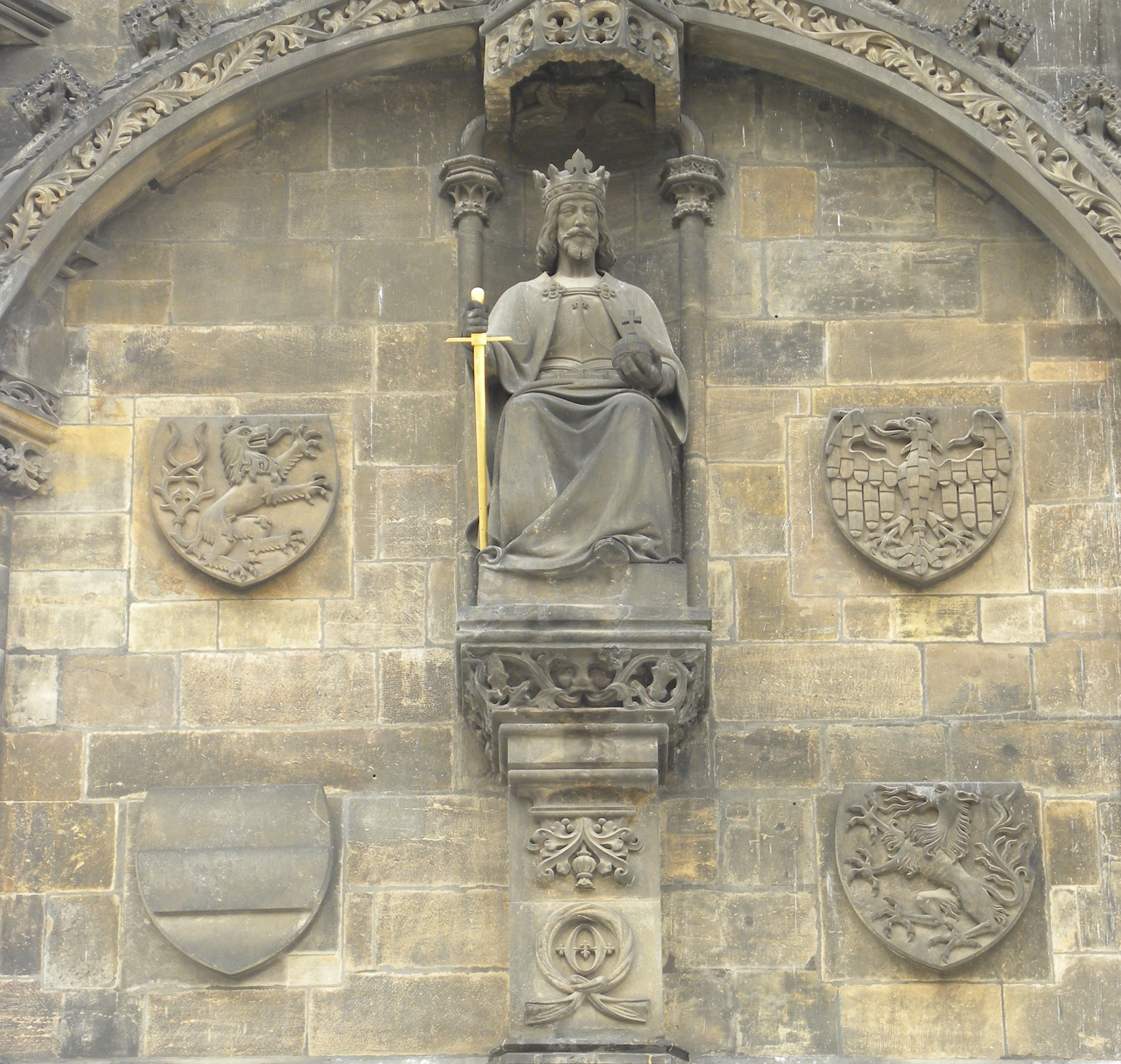 Powder Gate (Prašná brána), Prague. Eastern facade, statue on the right. Ottokar II of Bohemia. Coats of arms of Bohemia and Austria (left), Moravia and Styria (right).